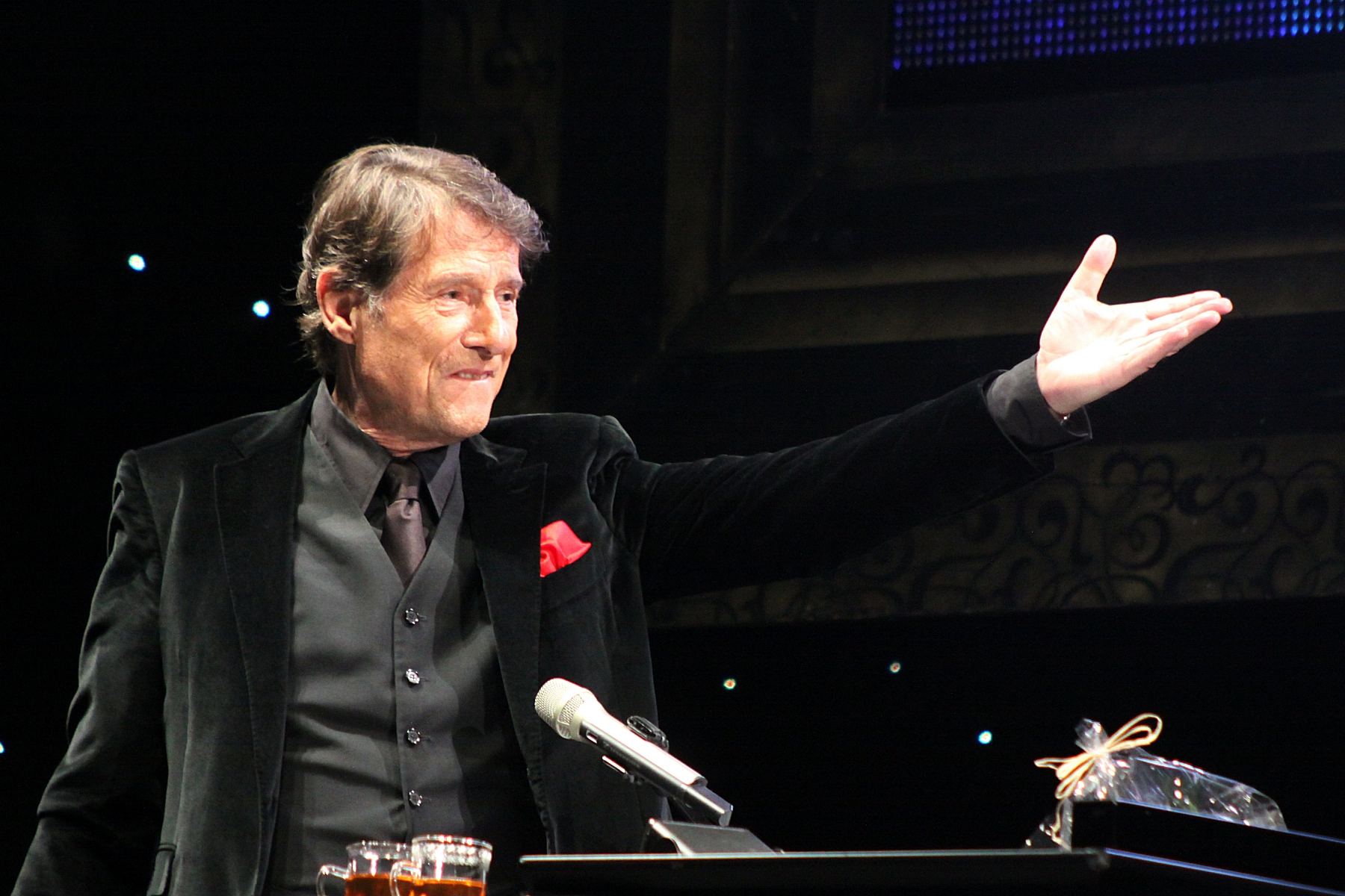 Udo Jürgens in concert at “Der Soloabend 2010” in Sankt Margarethen im Burgenland (Austria)